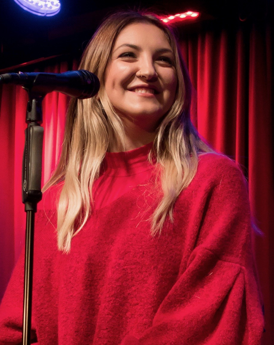 Julia Michaels live at the Grammy Museum in Los Angeles, November 2017.